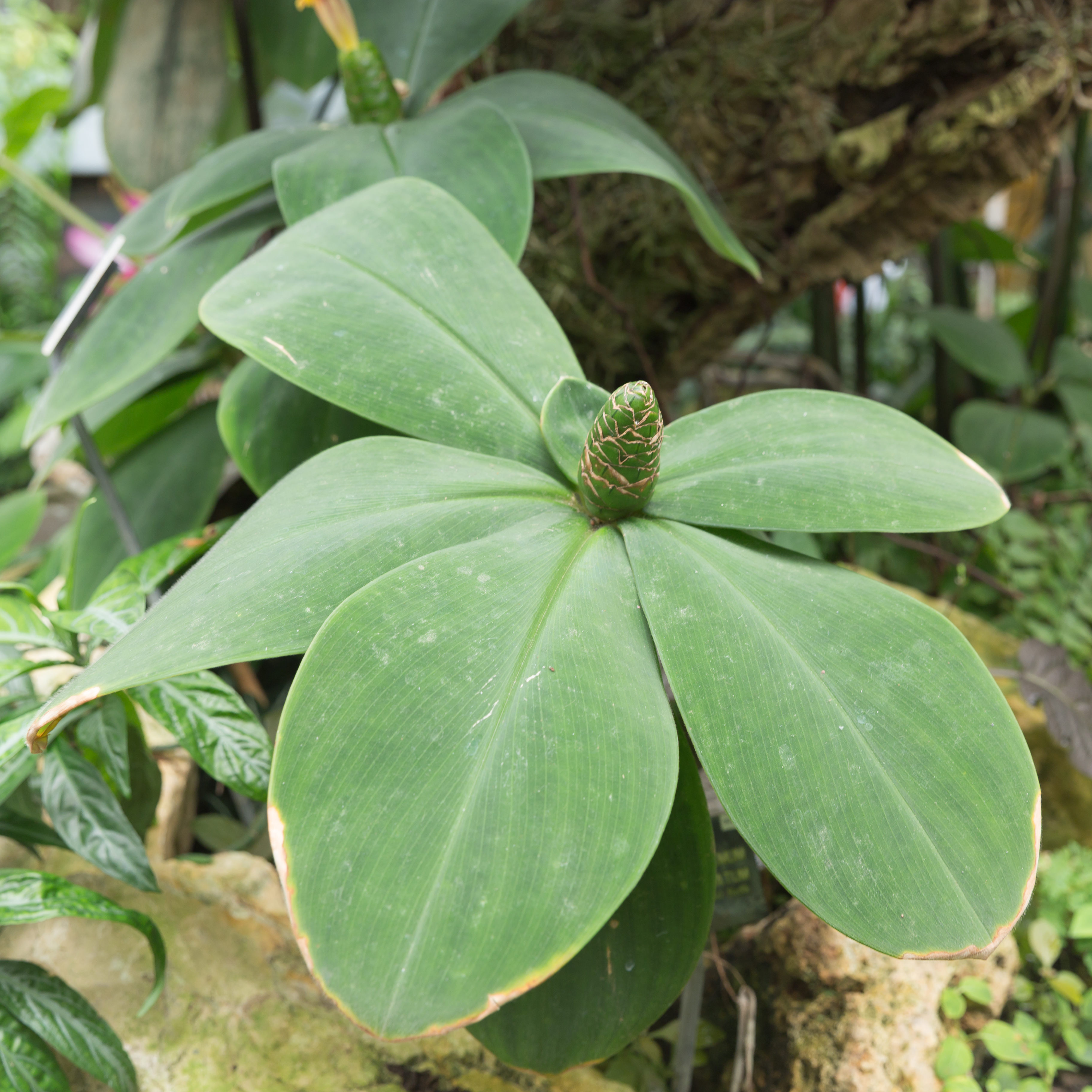 Costus malortieanus in the jardin botanique de Lyon, France.